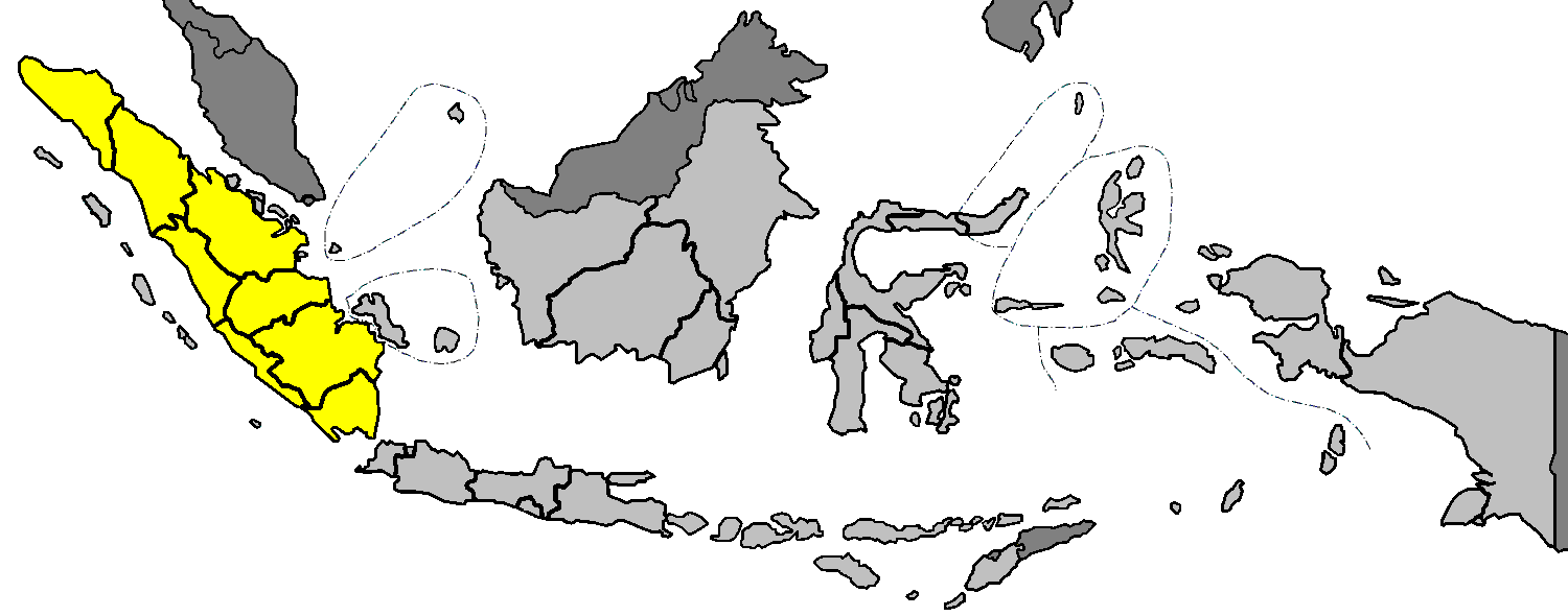 locator map of Indonesian islands